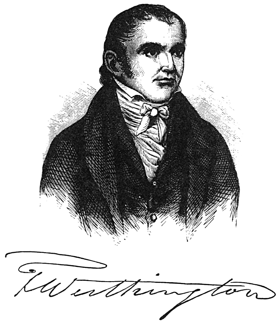 Image of a woodcut of Ohio Governor Thomas Worthington which appeared in PICTORIAL FIELD-BOOK OF THE WAR OF 1812 by BENSON J. LOSSING, published in 1869.